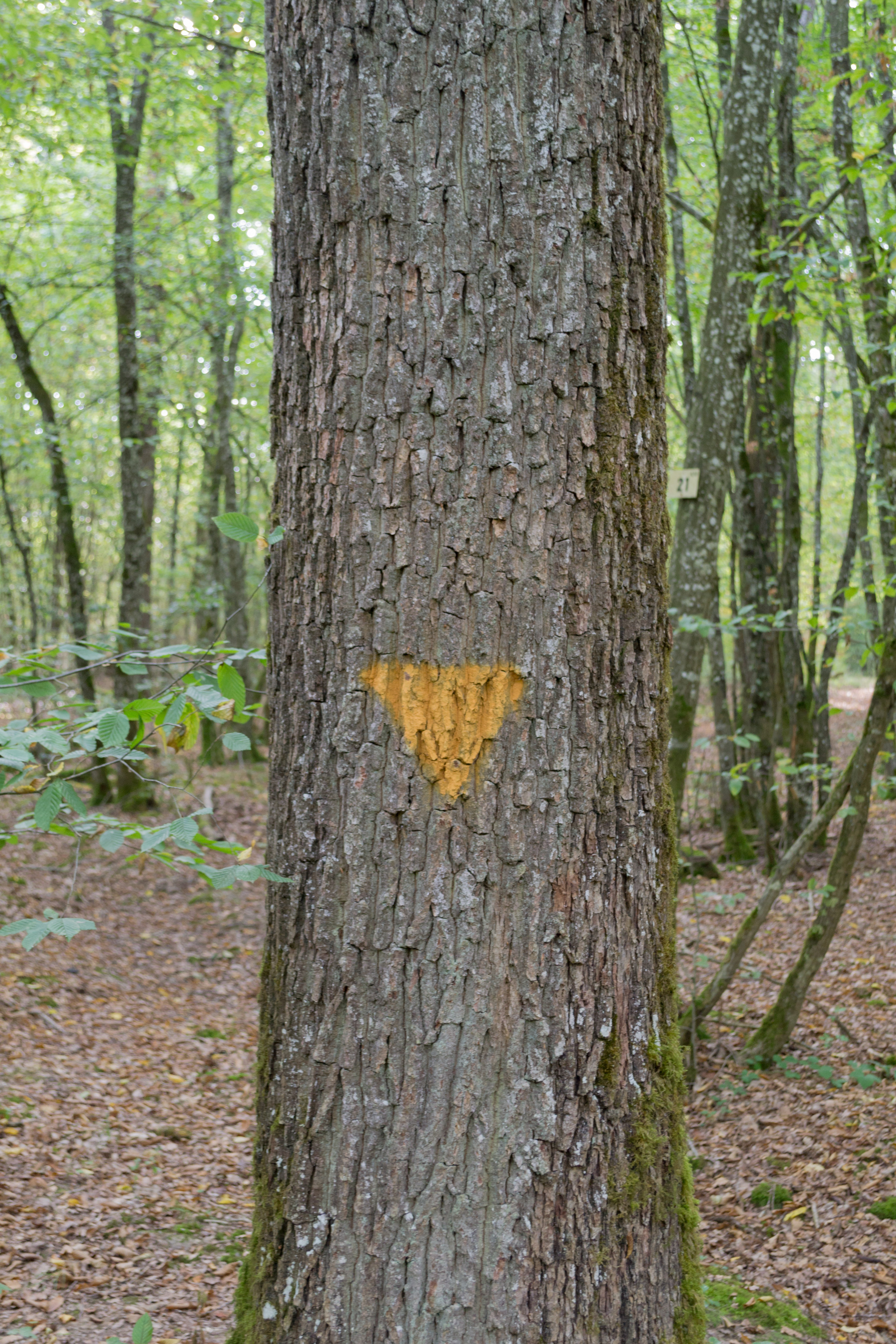 The French Office national des forêts (“Forests national office”, aka ONF) is supposed to mark 2 or 3 “arbres bios” by hectare: they are normally choosed among old, misshapen or damaged trees, without economic value but with high ecologic value, because of the high level of biodiversity they usually host. These trees, destined to live, die and rot afoot without human intervention, are usually painted with an inversed chamois triangle, as here, or with a red V; previously, they were tagged with a green “Arbre pour la biodiversité” plastic plaque (french for “Tree for biodiversity”).